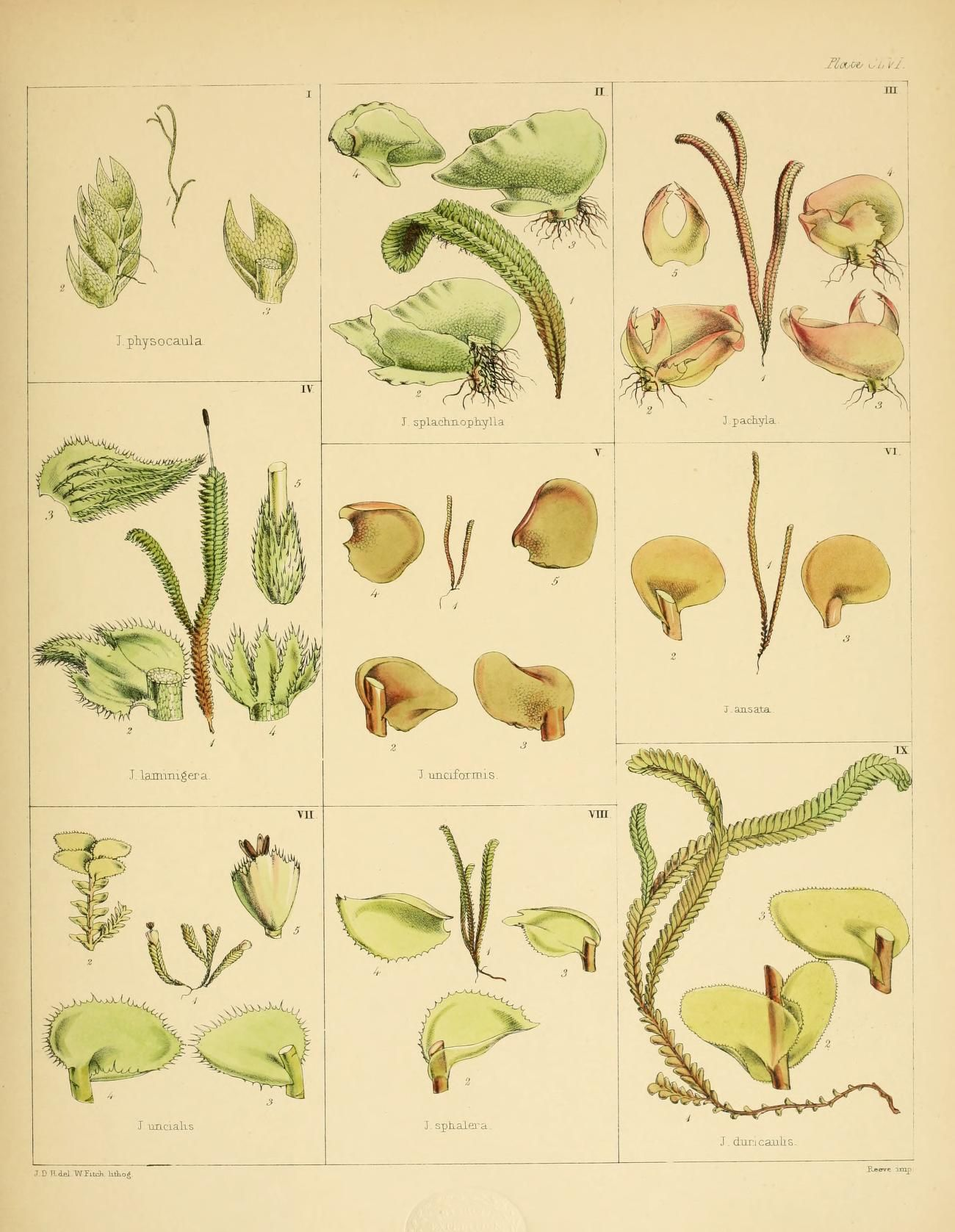 jpg of Plate CLVI of Hooker's Flora Antarctica. Made of up of nine smaller images of various images of Hepaticae. Fig I: Jungermannia physocaula; Fig II: J. splachnophylla; Fig III: J. pachyla; Fig IV: J. laminigera; Fig V: J. uniciformis; Fig VI: J. ansata; Fig VII: J. uncialis; Fig VIII: J. sphalera; Fig IX: "J. duricaulis